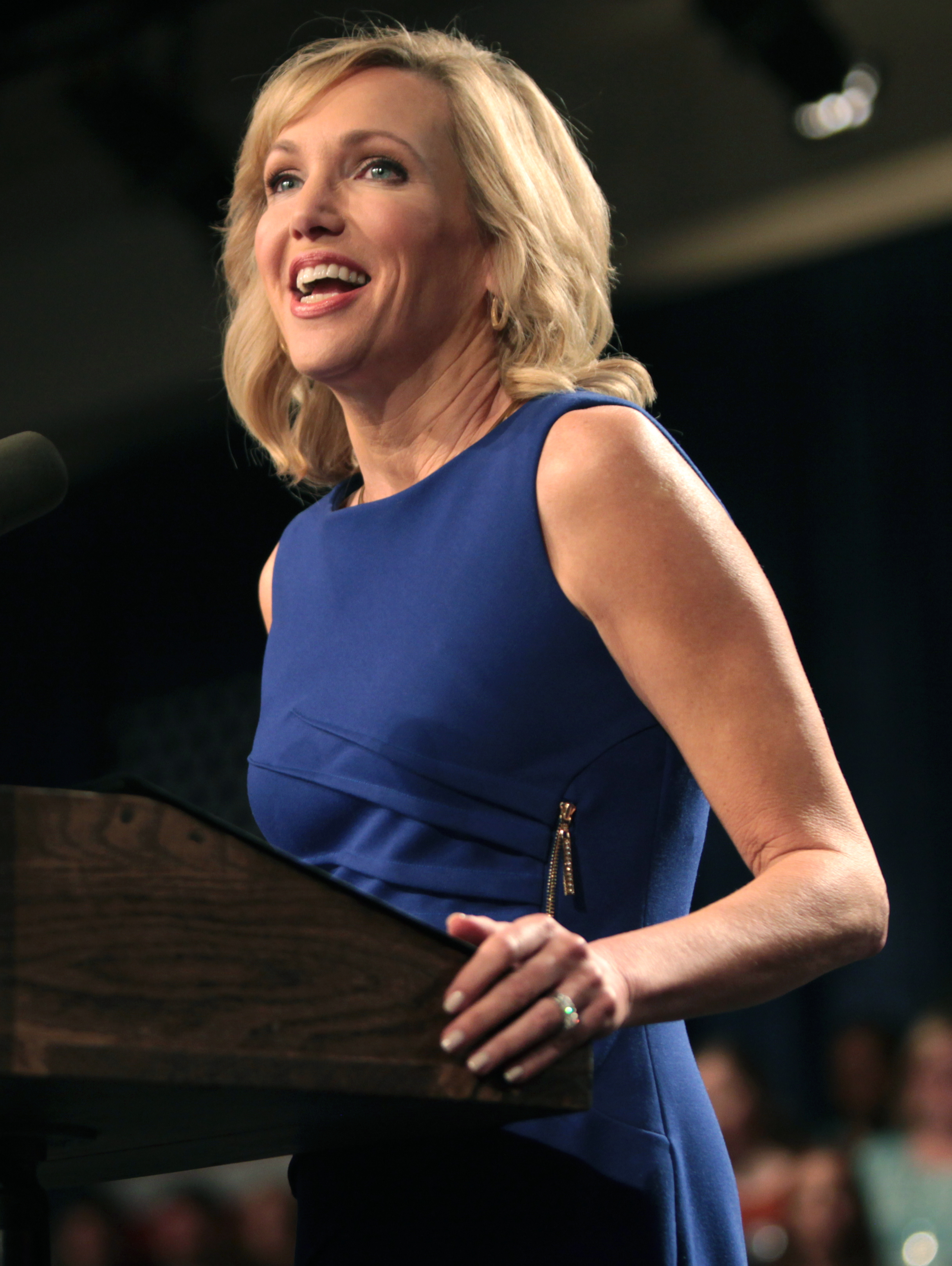 Kelley Paul speaking at Rand Paul's Presidential announcement in Louisville, Kentucky.